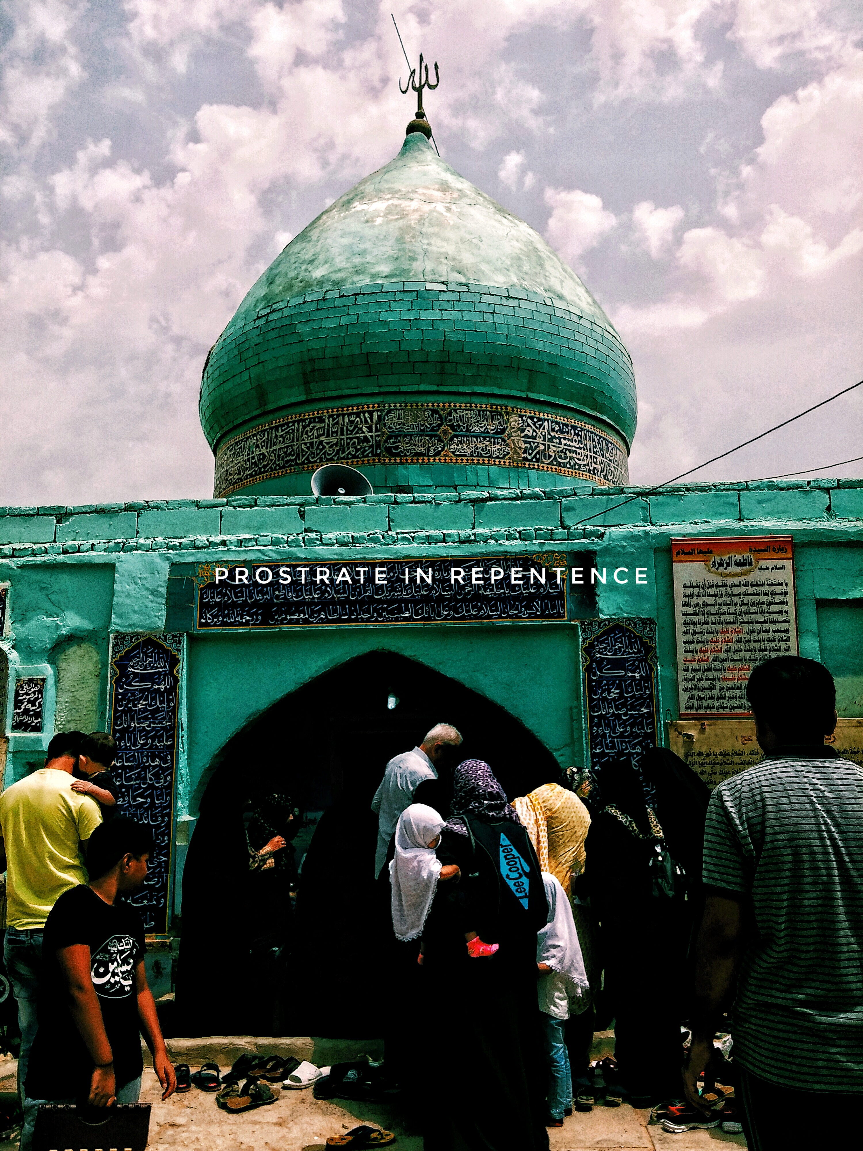 Shrine dedicated to Muhammad al-Mahdi (Maqām al-Imām al-Mahdī) in the Valley of Peace (Wādī as-Salām) Cemetery. Najaf, Iraq.